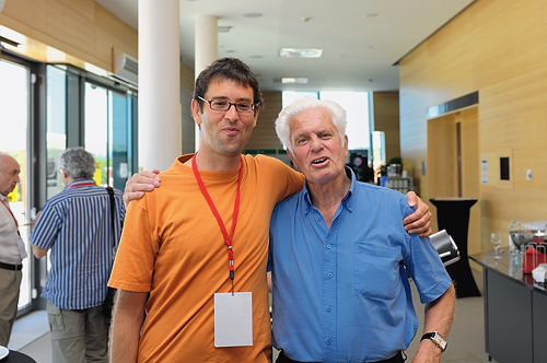 This is a picture of Daniel Mackler and Marius Romme taken at the 17th international ISPS conference in Dubrovnik, Croatia.